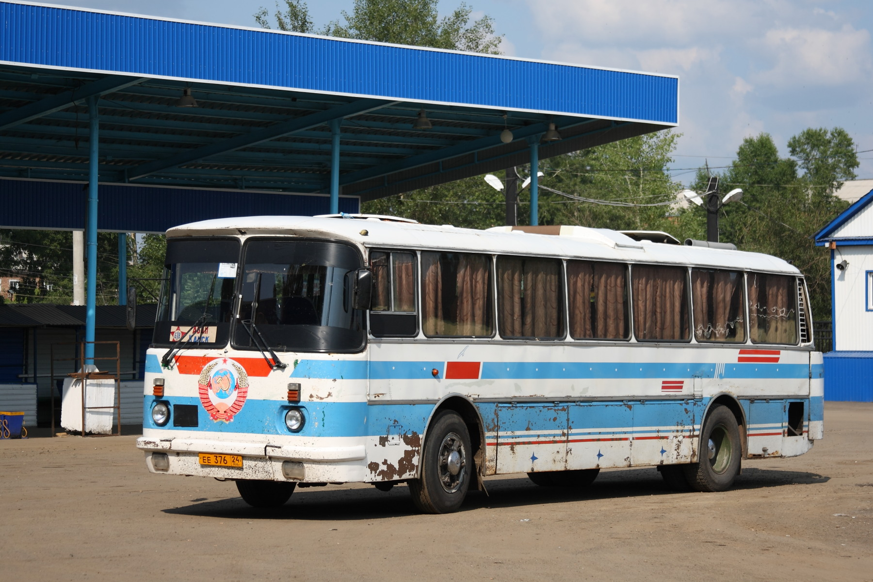 LAZ-699R bus at the bus terminal in Kansk, Krasnoyarsk krai, Russia